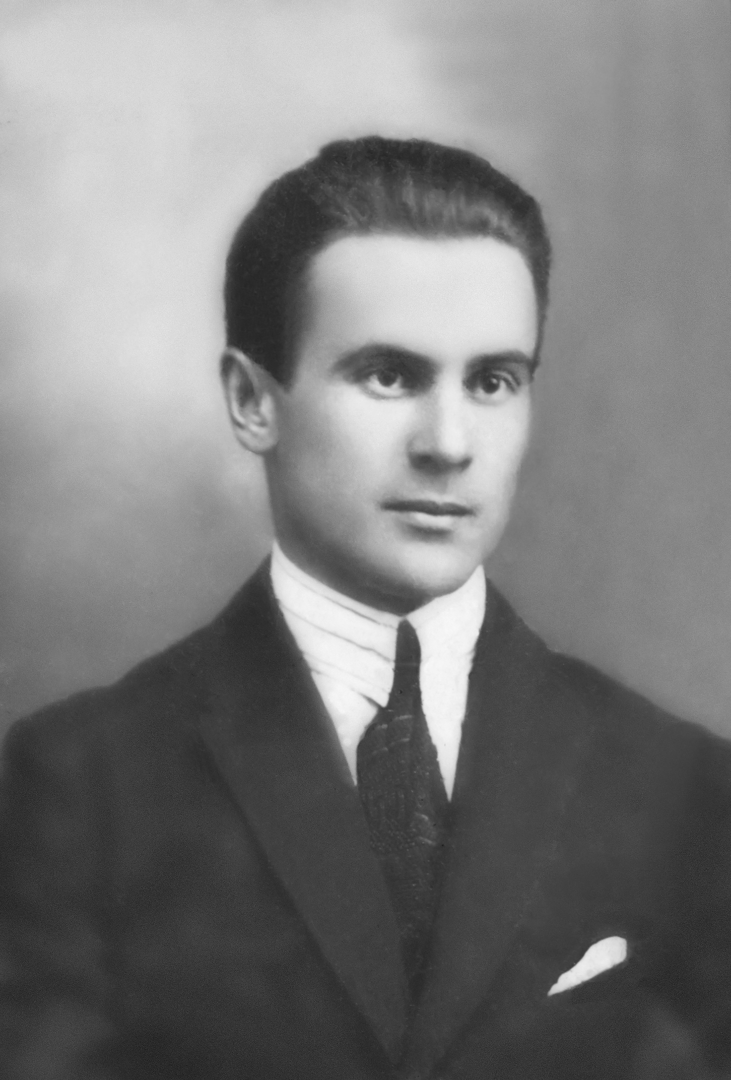 Portrait of Kazimierz Laskowski wearing civilian dress